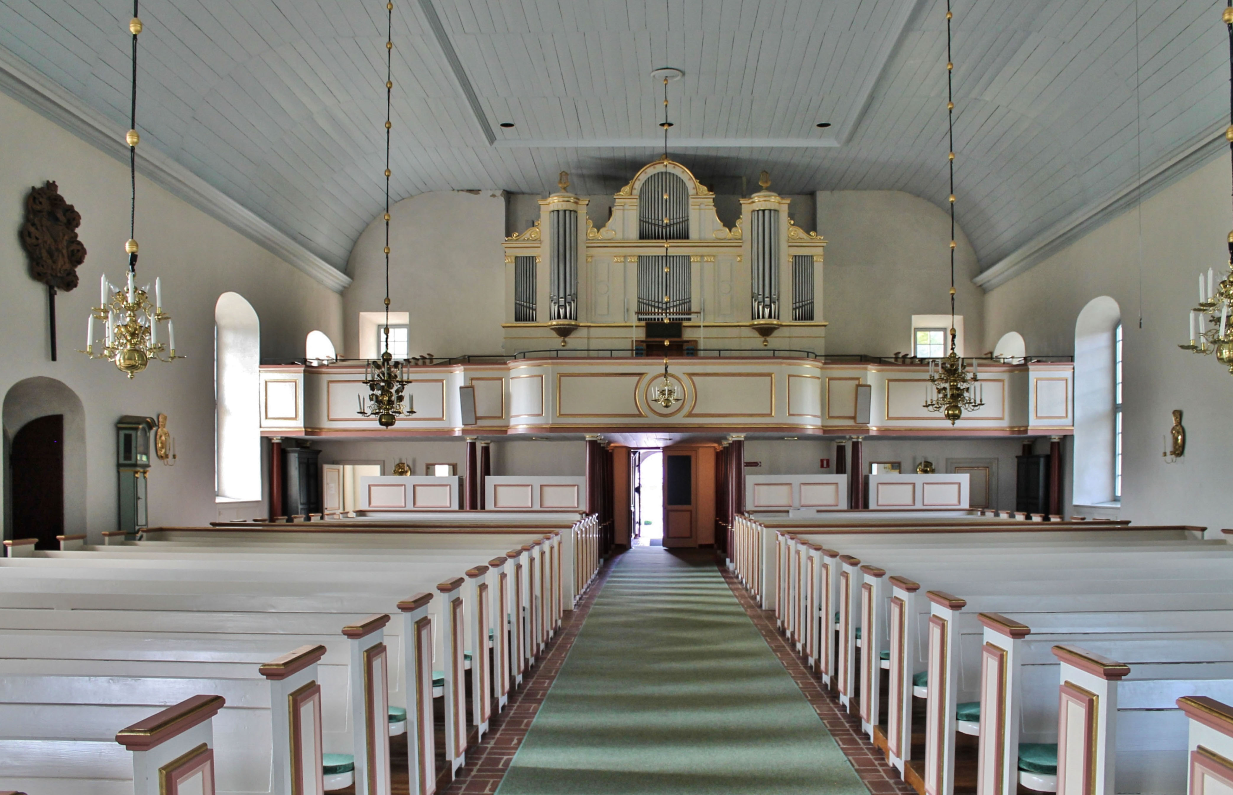 Rydaholm Church.The nave